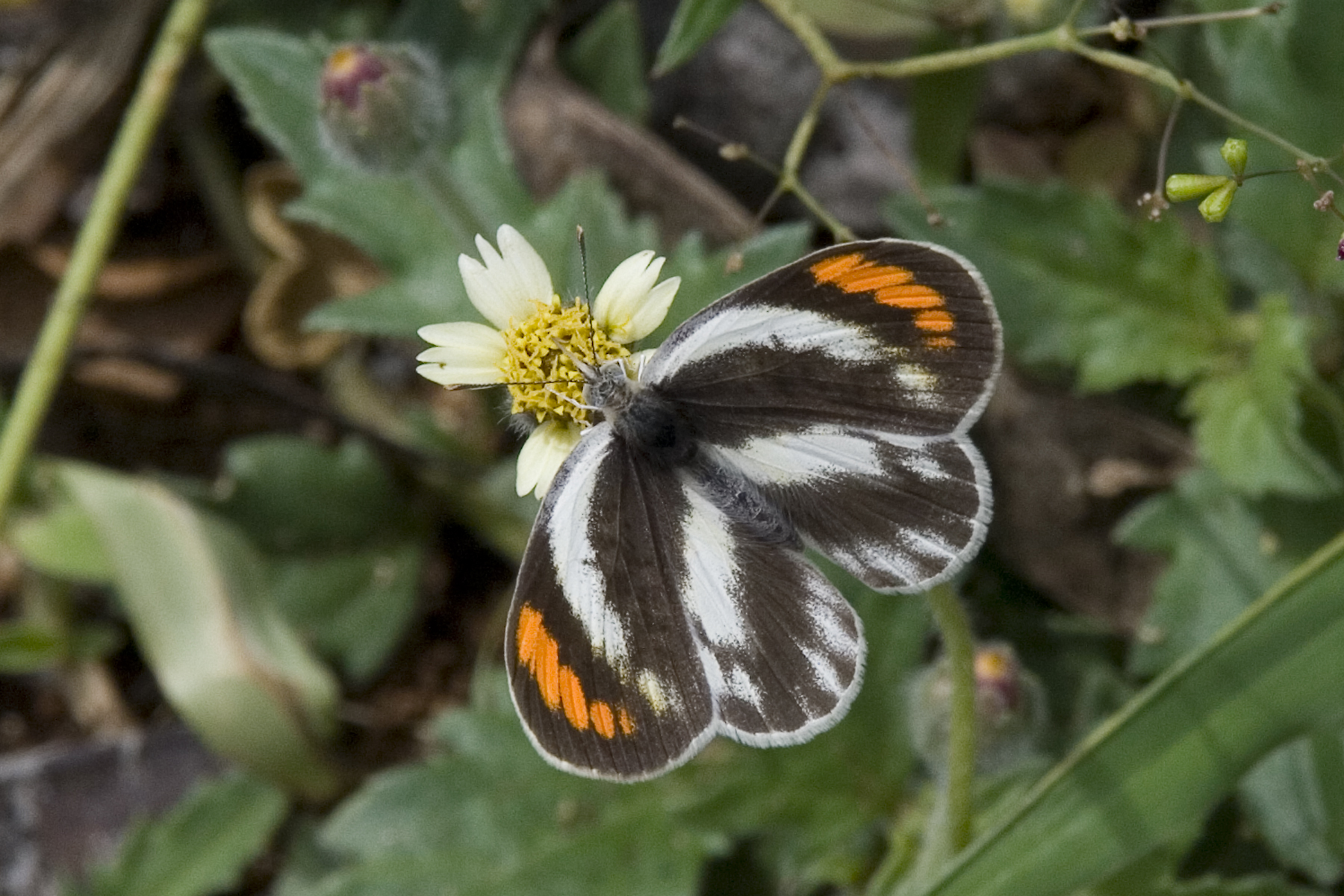 Colotis euippe (Linnaeus, 1758), Round Winged Orange Tip, C. e. omphale (Godart, 1819)